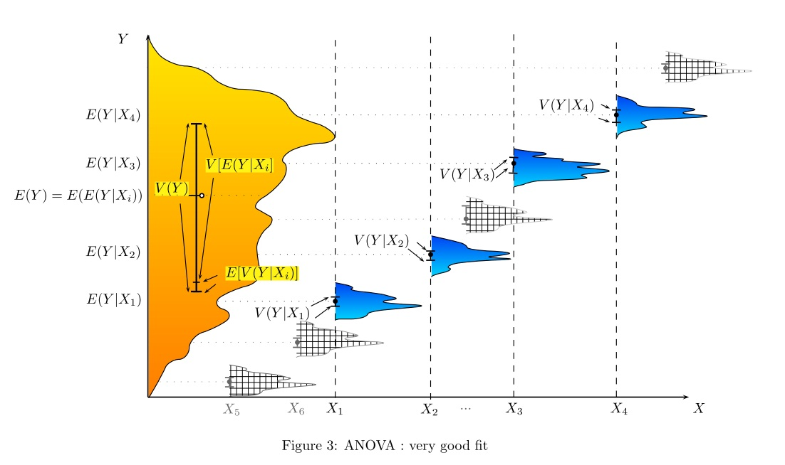 A representation of a situation with a very good fit in terms of ANOVA statistics